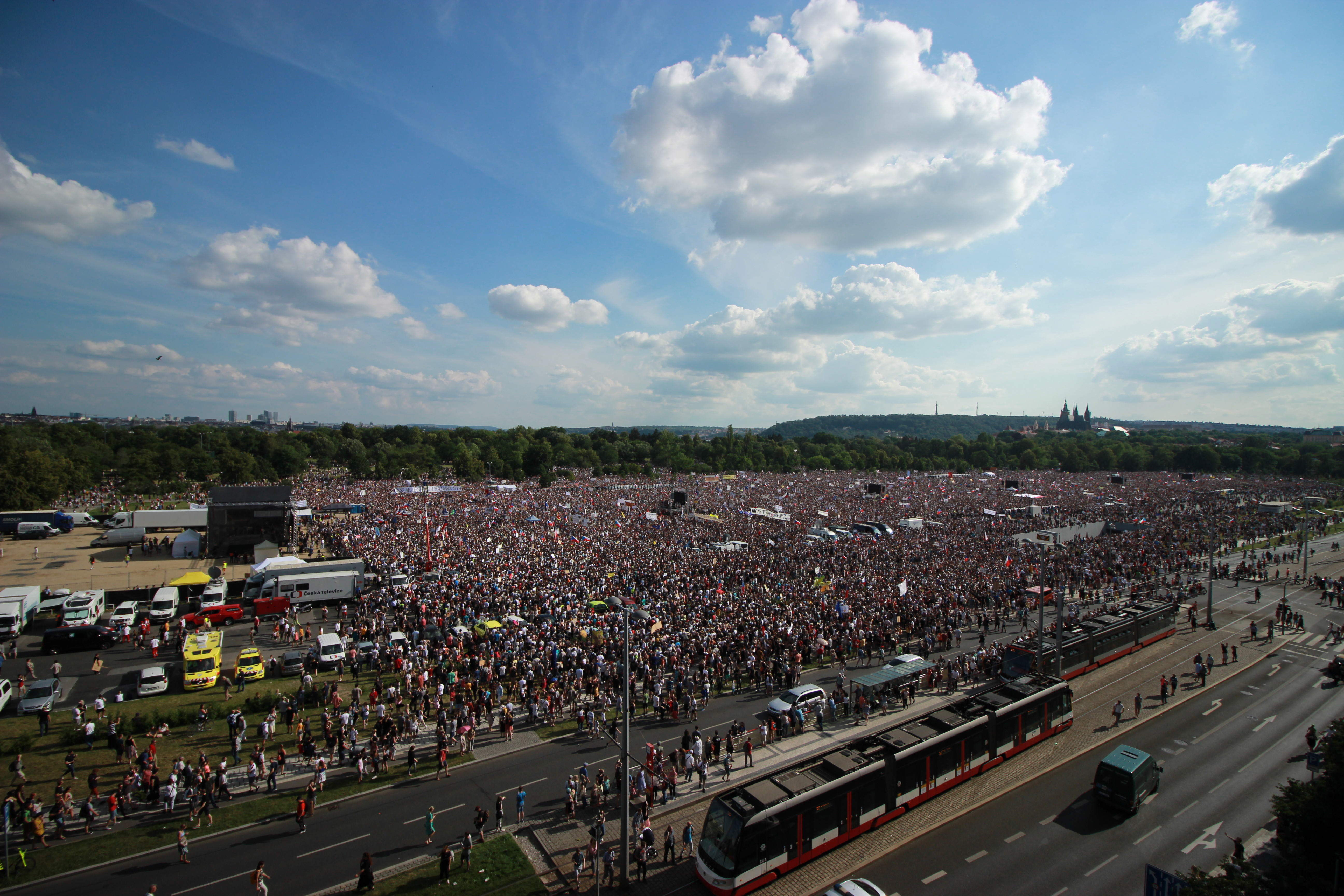 Protest in Prague on Letná plain against Czech prime minister Andrej Babiš - 23th June 2019